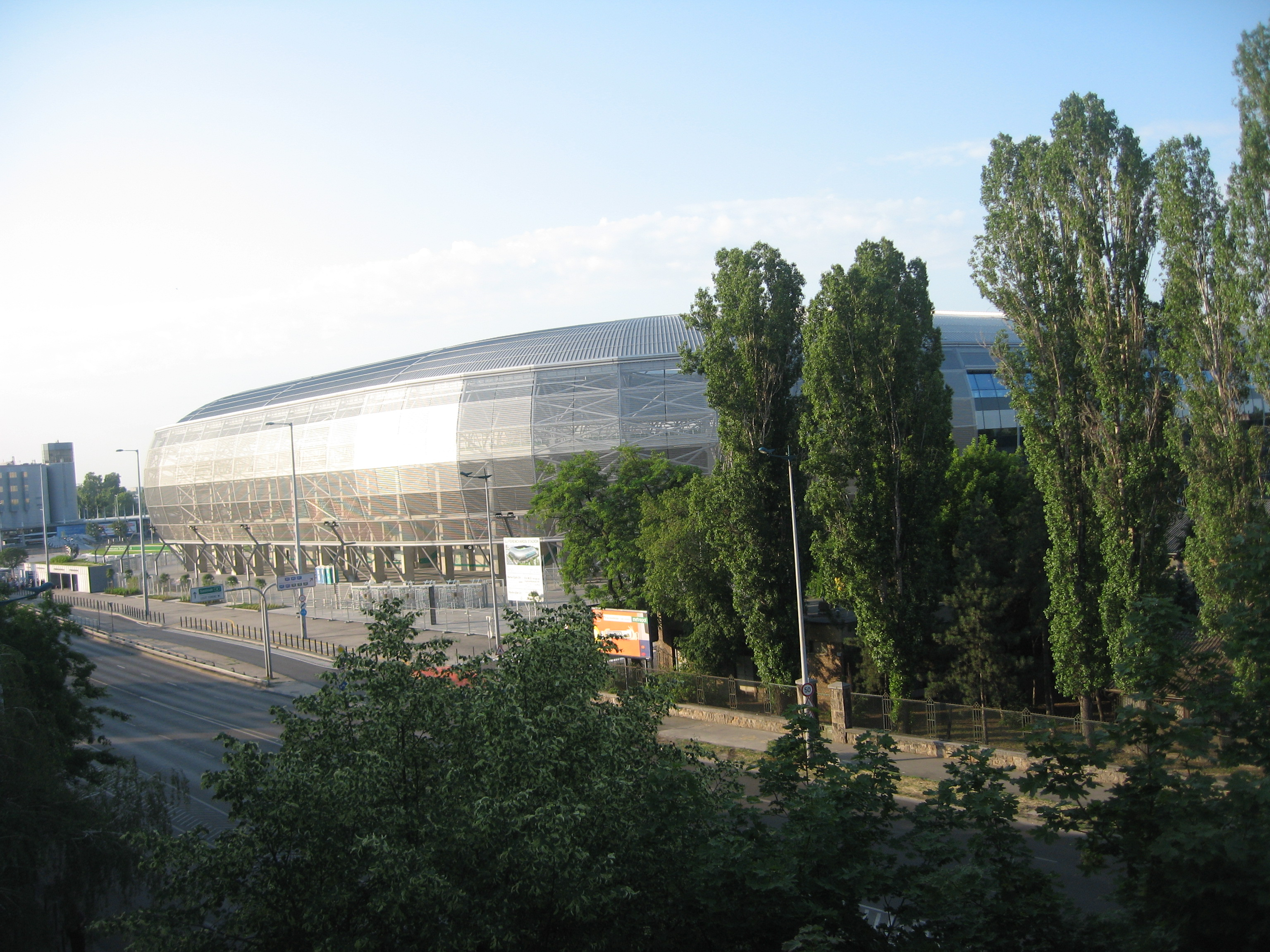 Stadion Albert Flórián in Budapest